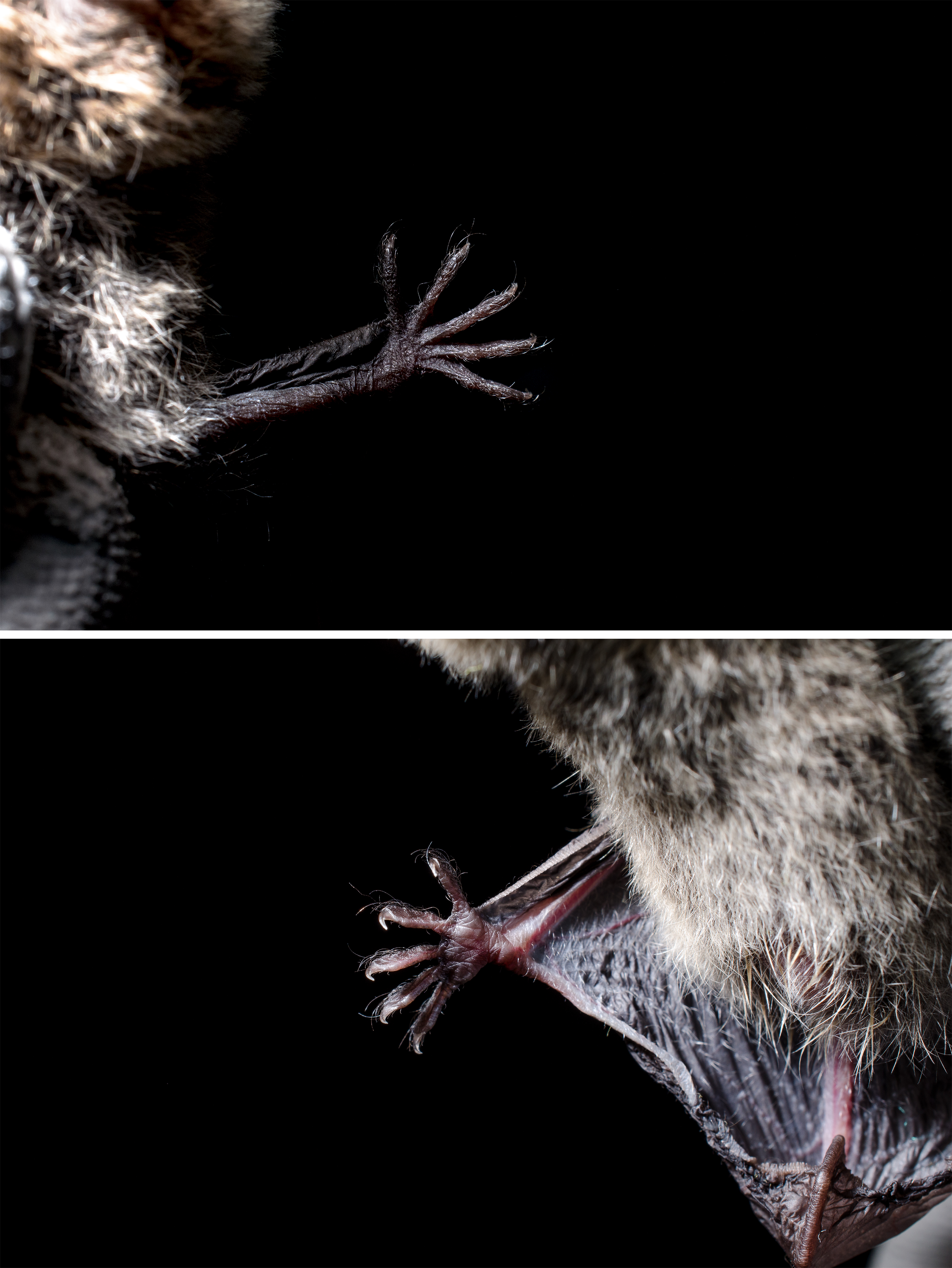 Hind legs of northern bat (Eptesicus nilssonii)